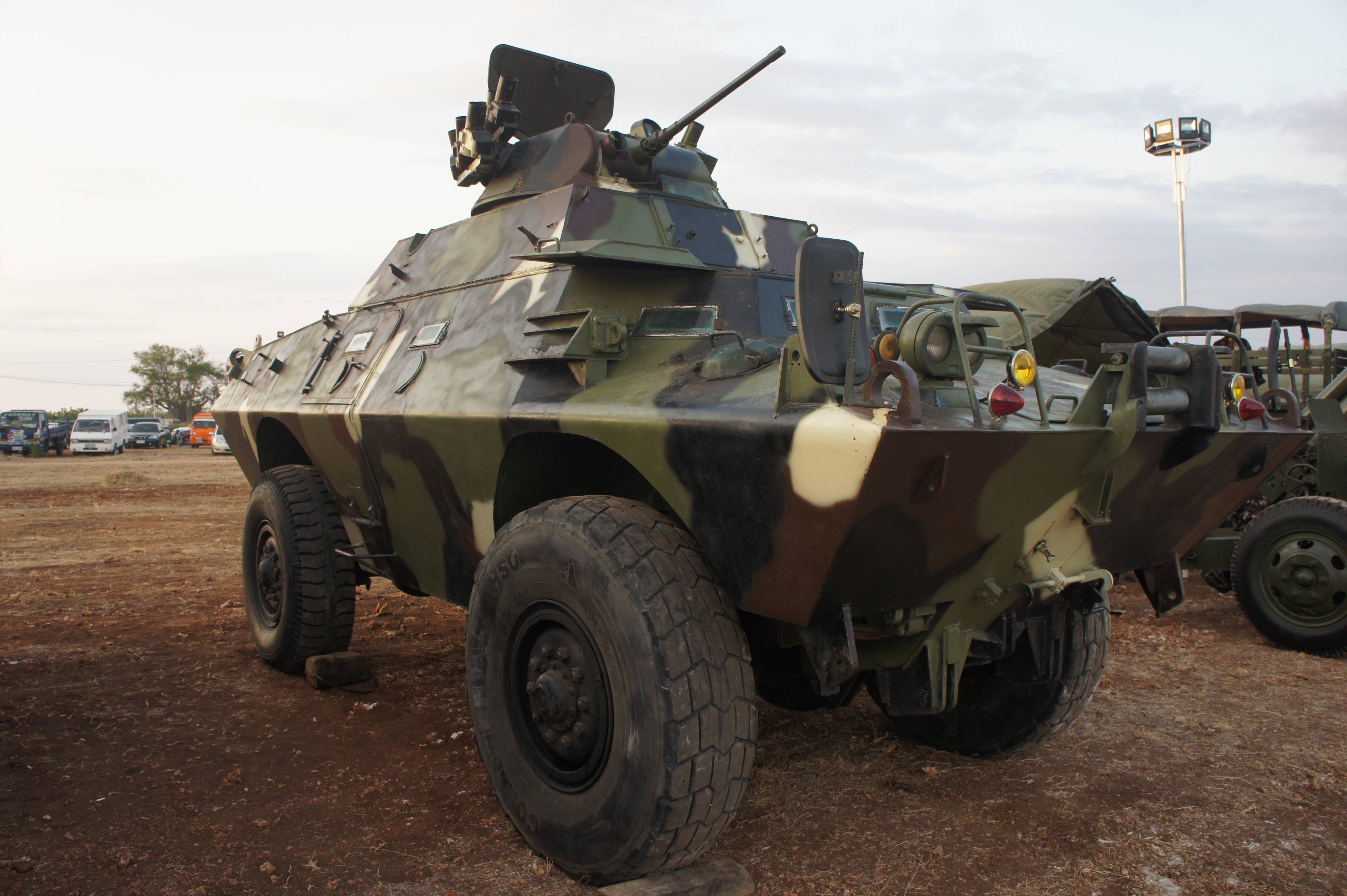 A Philippine Army Cadillac Gage Commando 4x4 armoured vehicle on static display during the Sillag Festival in Poro Point, San Fernando, La Union.